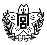 school mark of Miyagaya Elementary School of Yokohama City